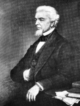 Portrait of Connecticut Governor William Wolcott Ellsworth.